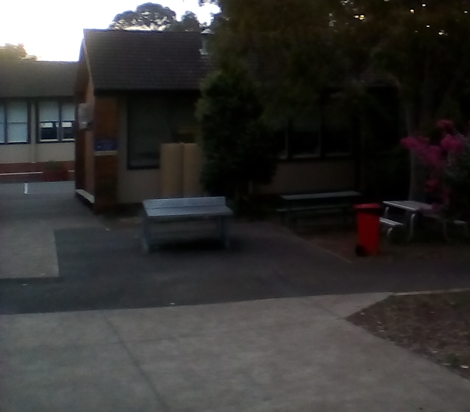 evening at Kings Langley